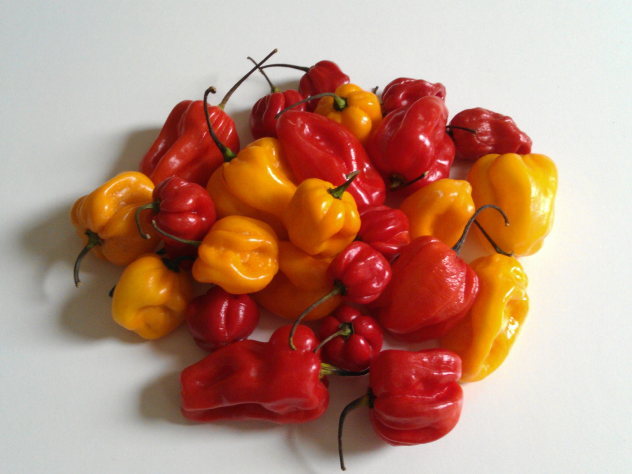 Adjoema (or adjuma, aji umba, ojemma) chili peppers, bought from a Suriname shop in Netherlands.